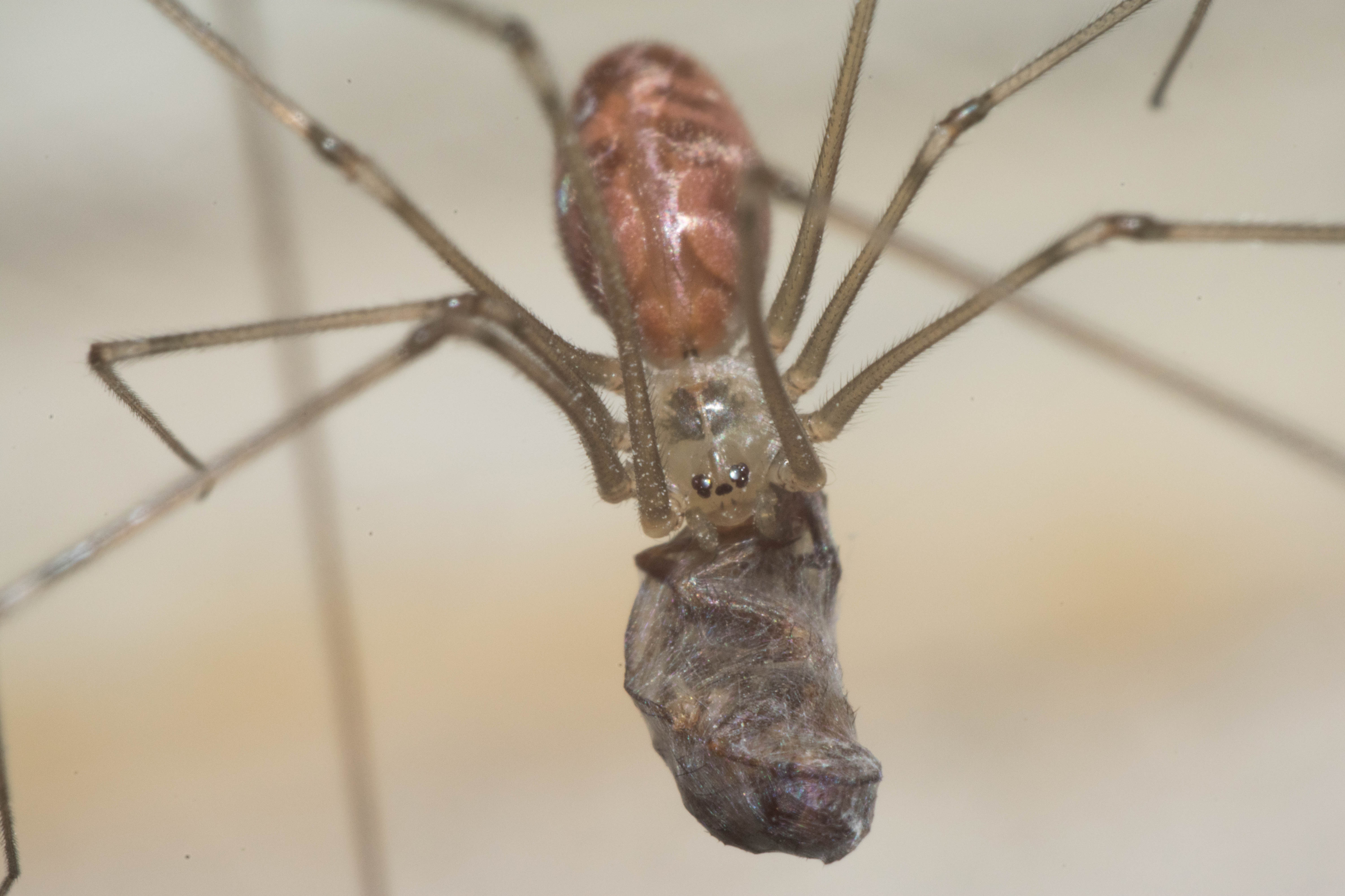 Long Bodied Cellar Spider having dinner.